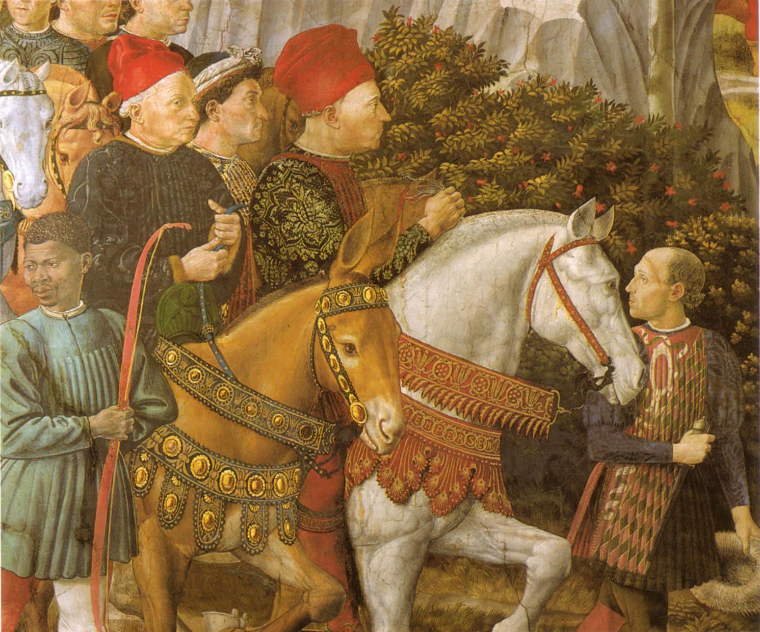 Portraits of some members of the House of Medici. On the right side, a portrait of Giovanni di Piero il Gottoso (the gouty) de' Medici. Detail from the fresco by Benozzo Gozzoli, in the "Cappella dei Magi", at Palazzo Medici Riccardi in Florence, Italy.